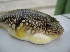 It was too small to be eaten so we put it back in the water. Anyway I'm not sure I'd have eaten it because it was so cute!